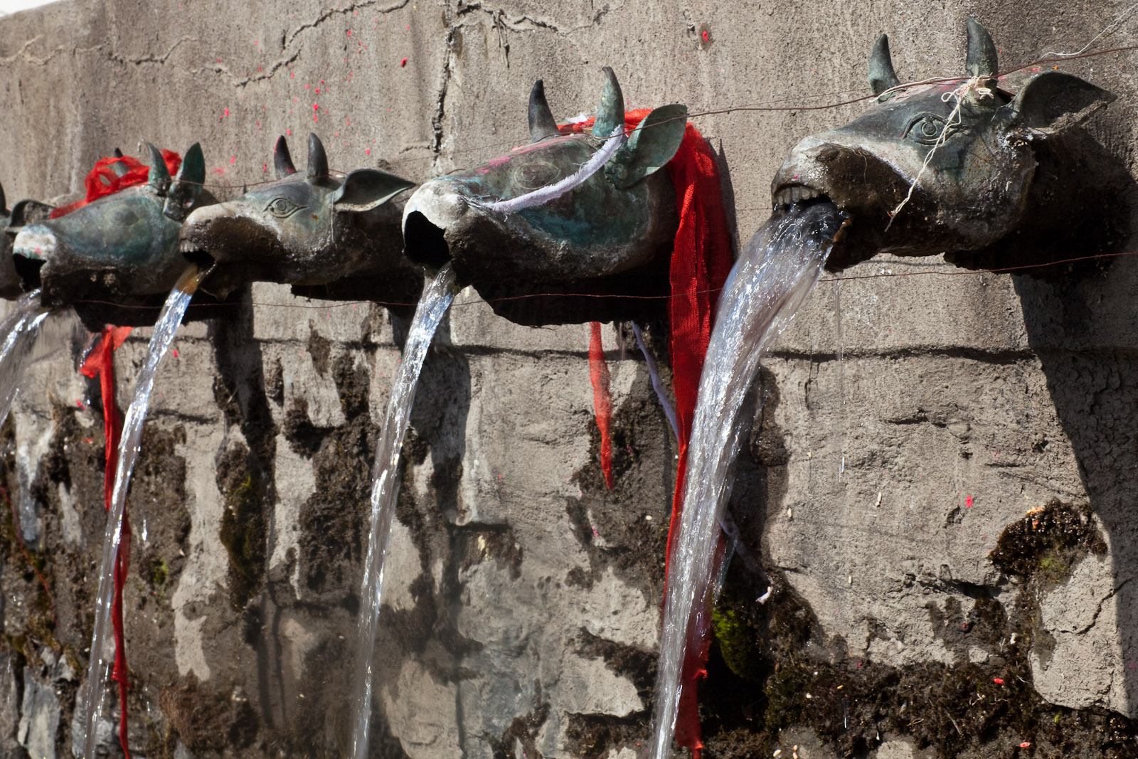 Brass watespouts (108 total)at Chumig Gyatsa, Muktinath